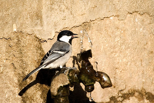 Parus cinereus (Cinereous Tit), Indian race Gujarat, 2005